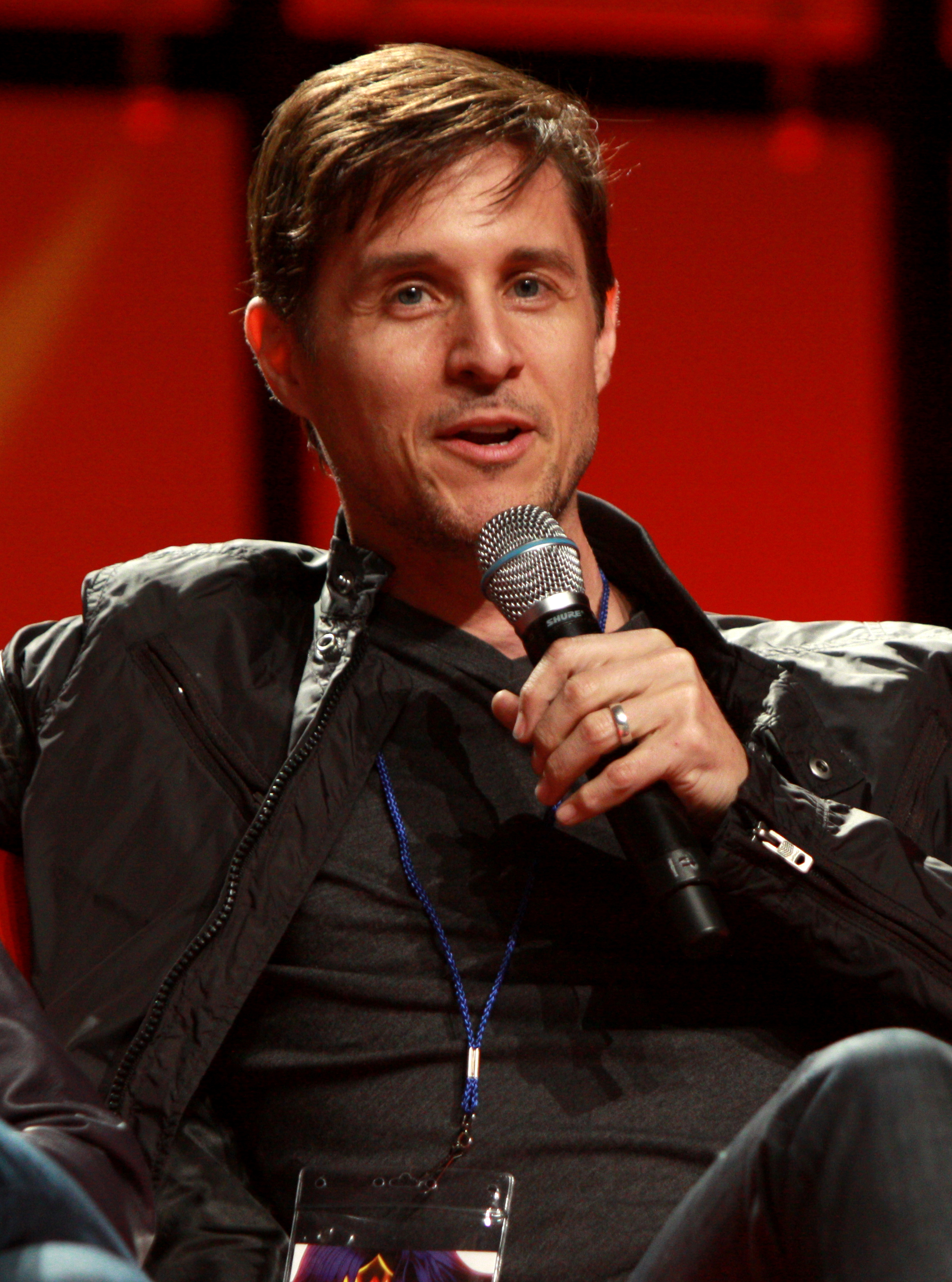 Yuri Lowenthal at the 2013 Phoenix Comicon in Phoenix, Arizona.